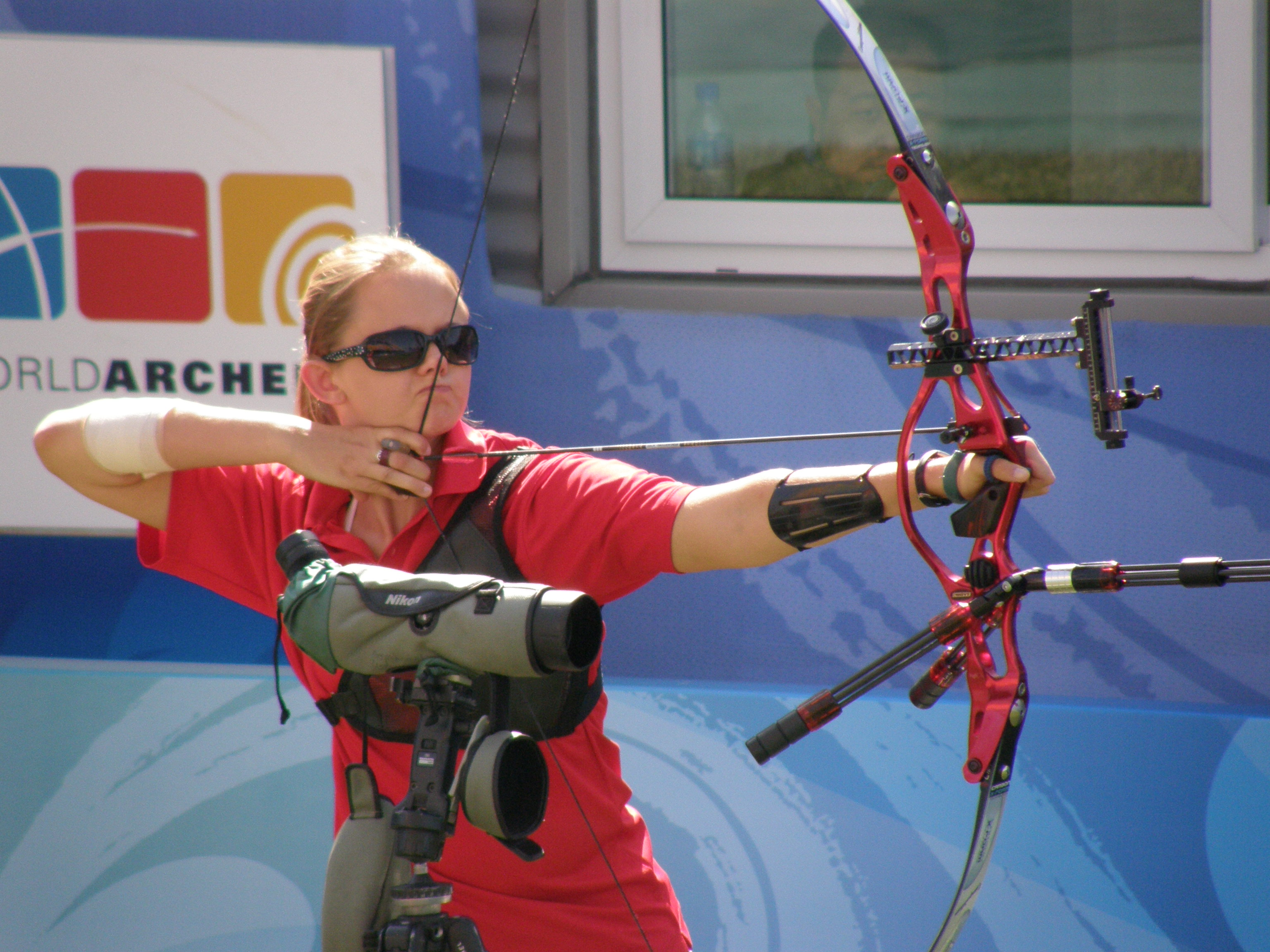 Texan Lindsey Carmichael competes for Team USA at the 2008 Paralympic Games in Beijing, winning the bronze medal with the highest score of any female recurve archer during the final day of competition.